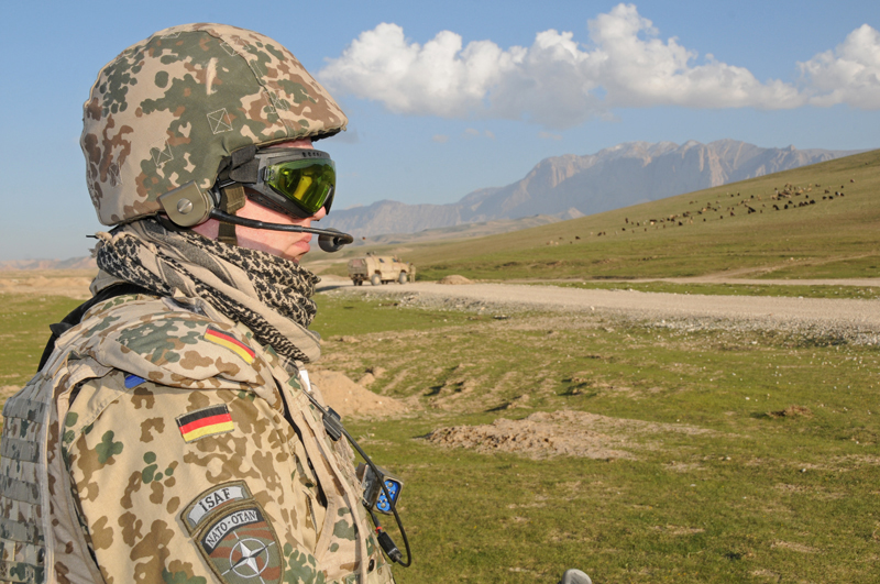 International Security Assistance Force soldiers with the German Logistics Support Battalion 172 conduct a recovery task force training exercise outside Camp Marmal here, Feb. 27.